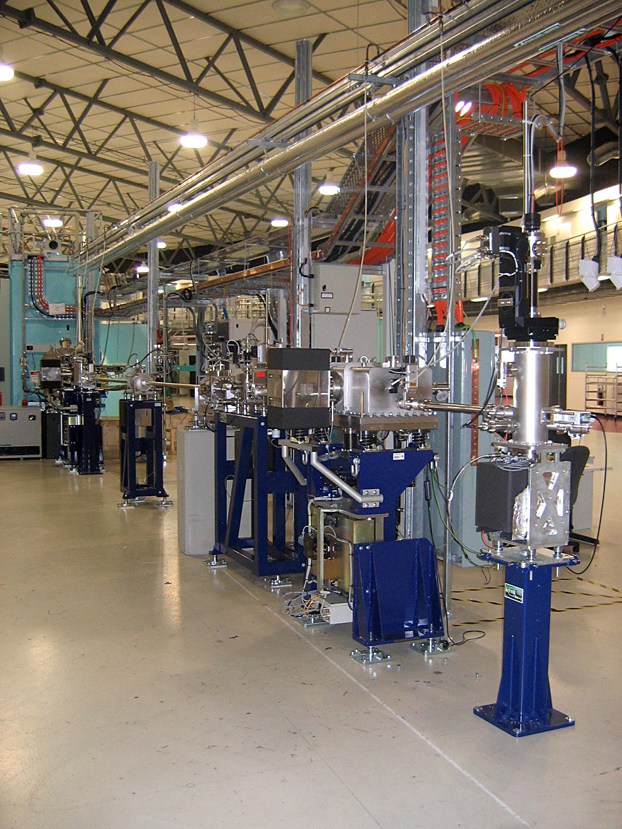 The soft x-ray beamline experimental station at the Australian Synchrotron, Clayton, Victoria.